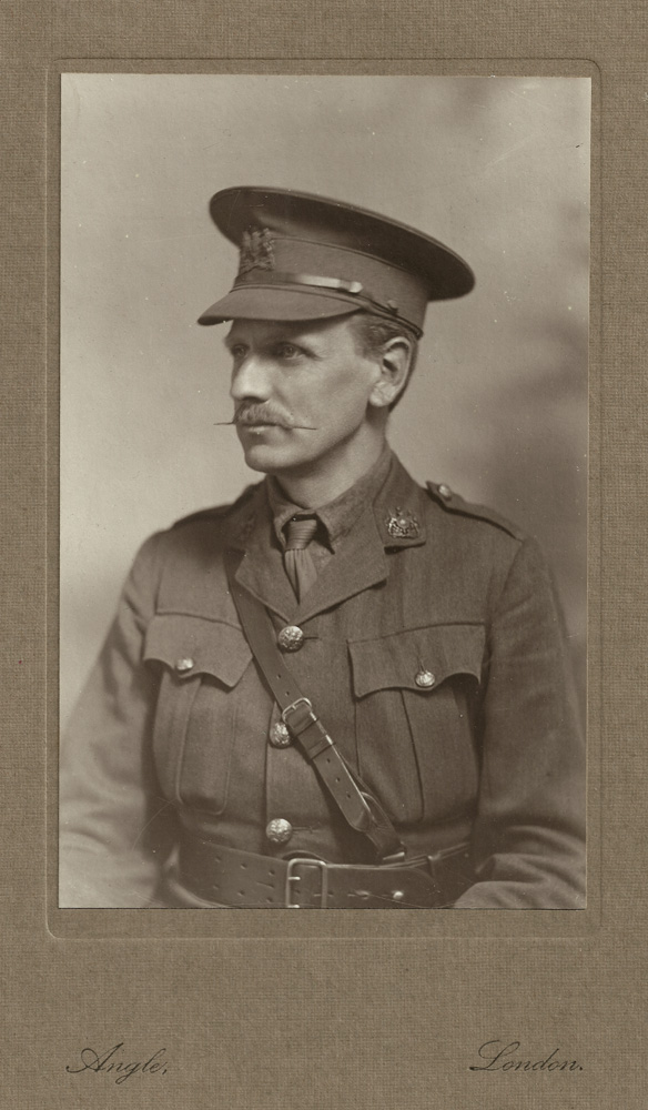 Portrait of Colonel Edward Frank Harrison, World War 1 chemist and inventor of gas mask. A hand written caption on the reverse reads: "Colonel Harrison. Friend of the Tomalins*; in command of all gas defence in 1914-18 war; died from gas effects." this image was given to the Tomalin family (founders of Jaeger) It appears that the image in the some old press cuttings is from the same sitting, and I have a feeling that the memorial at the Royal Pharmaceutical Society, and their Harrison Memorial medal, are derived from this image.